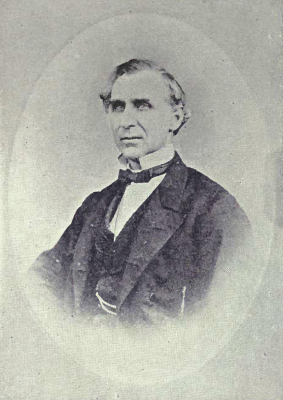 James William Cook Source: The Canadian album : men of Canada; or, Success by example, in religion, patriotism, business, law, medicine, education and agriculture; containing portraits of some of Canada's chief business men, statesmen, farmers, men of the learned professions, and others; also, an authentic sketch of their lives; object lessons for the present generation and examples to posterity (Volume 4) (1891-1896) Creator:Cochrane, William, 1831-1898 Creator:Hopkins, J. Castell (John Castell), 1864-1923 Publisher:Brantford, Ont. : Bradley, Garretson & Co. Date:1891-1896